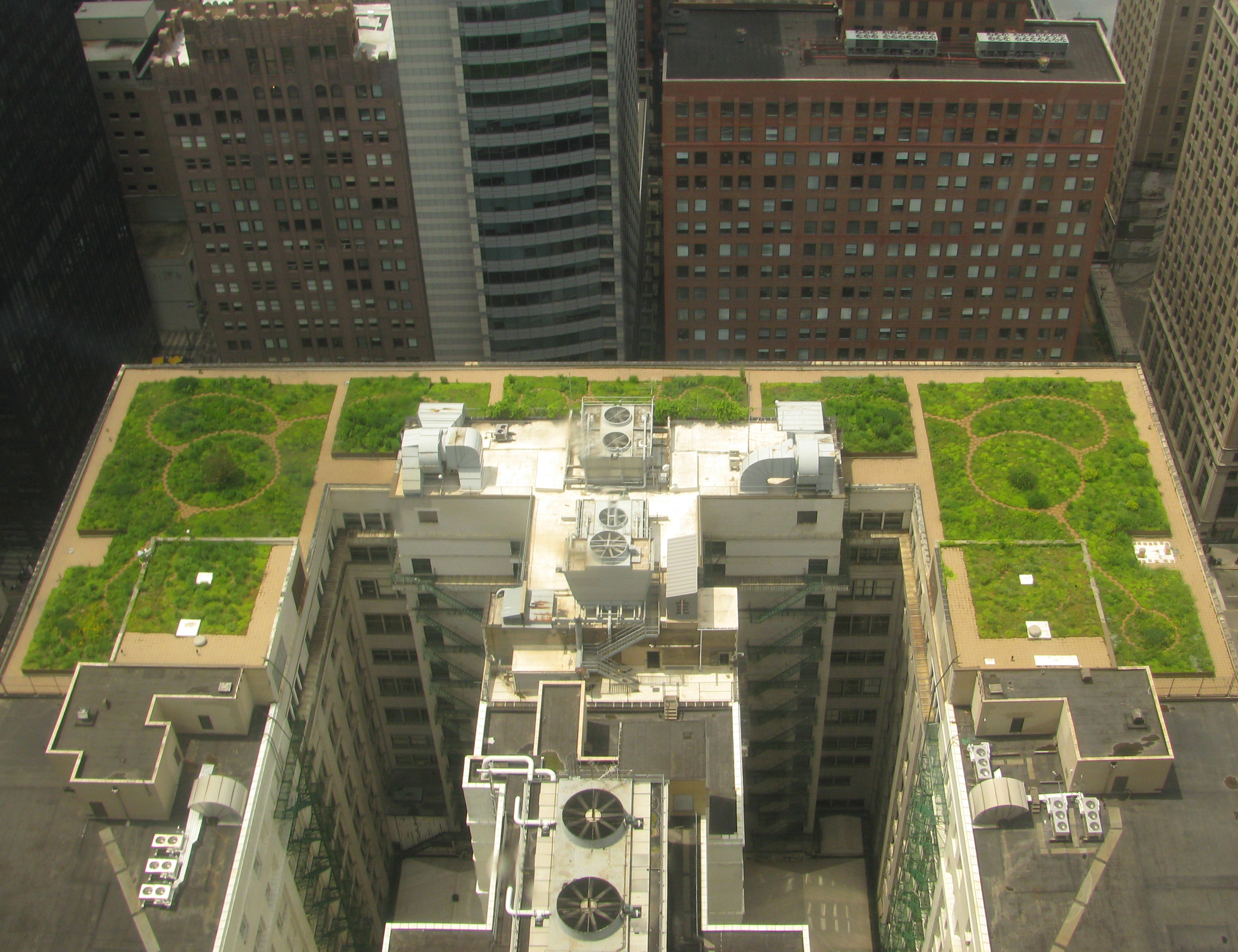 Chicago City Hall Green Roof